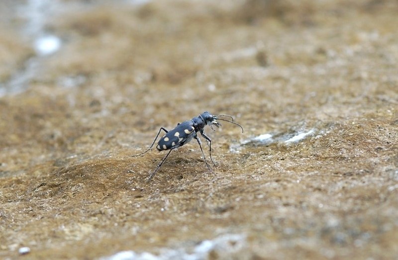 Korean tiger beetle Calomera littoralis